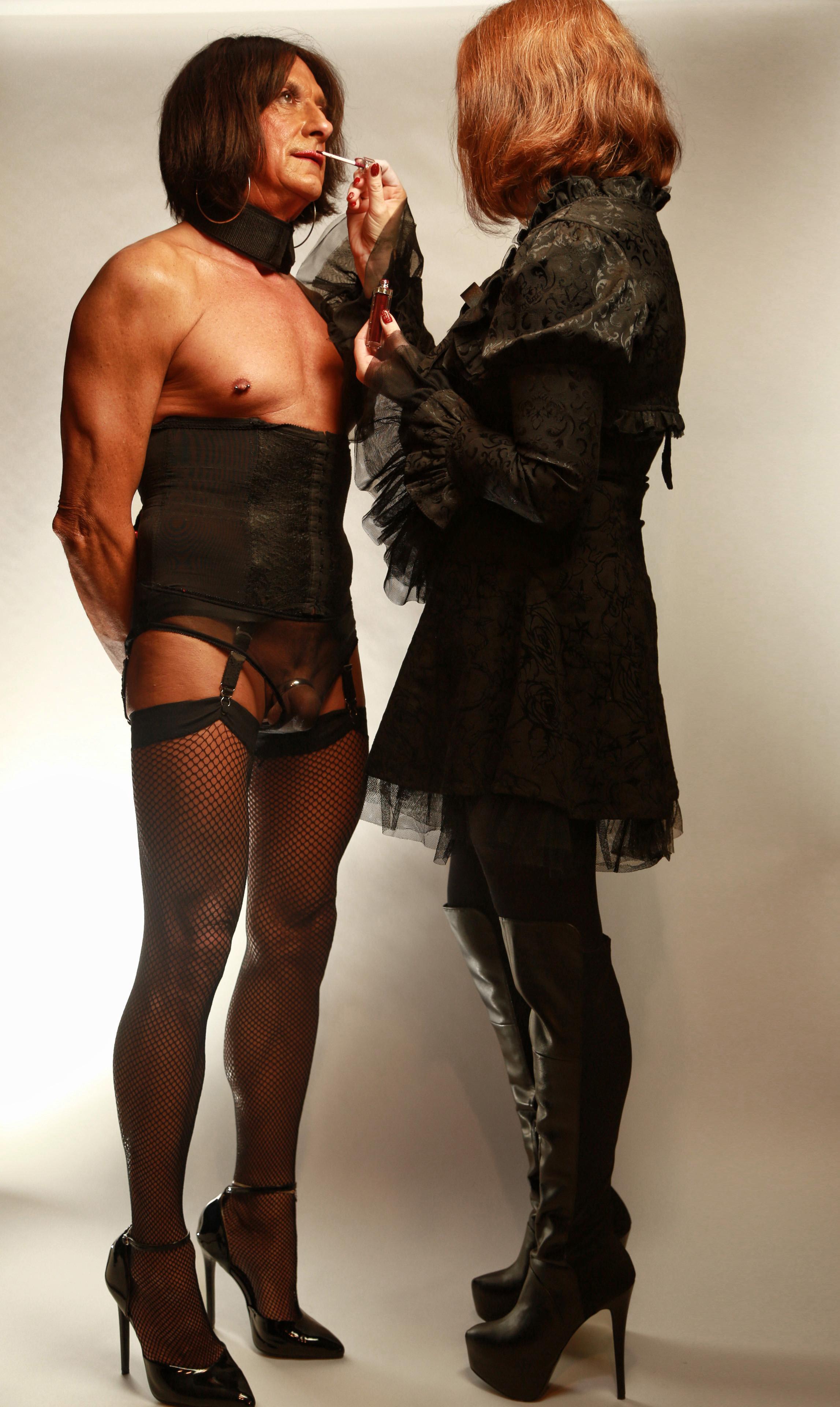 A woman applying makeup to a man during the feminization fetish.